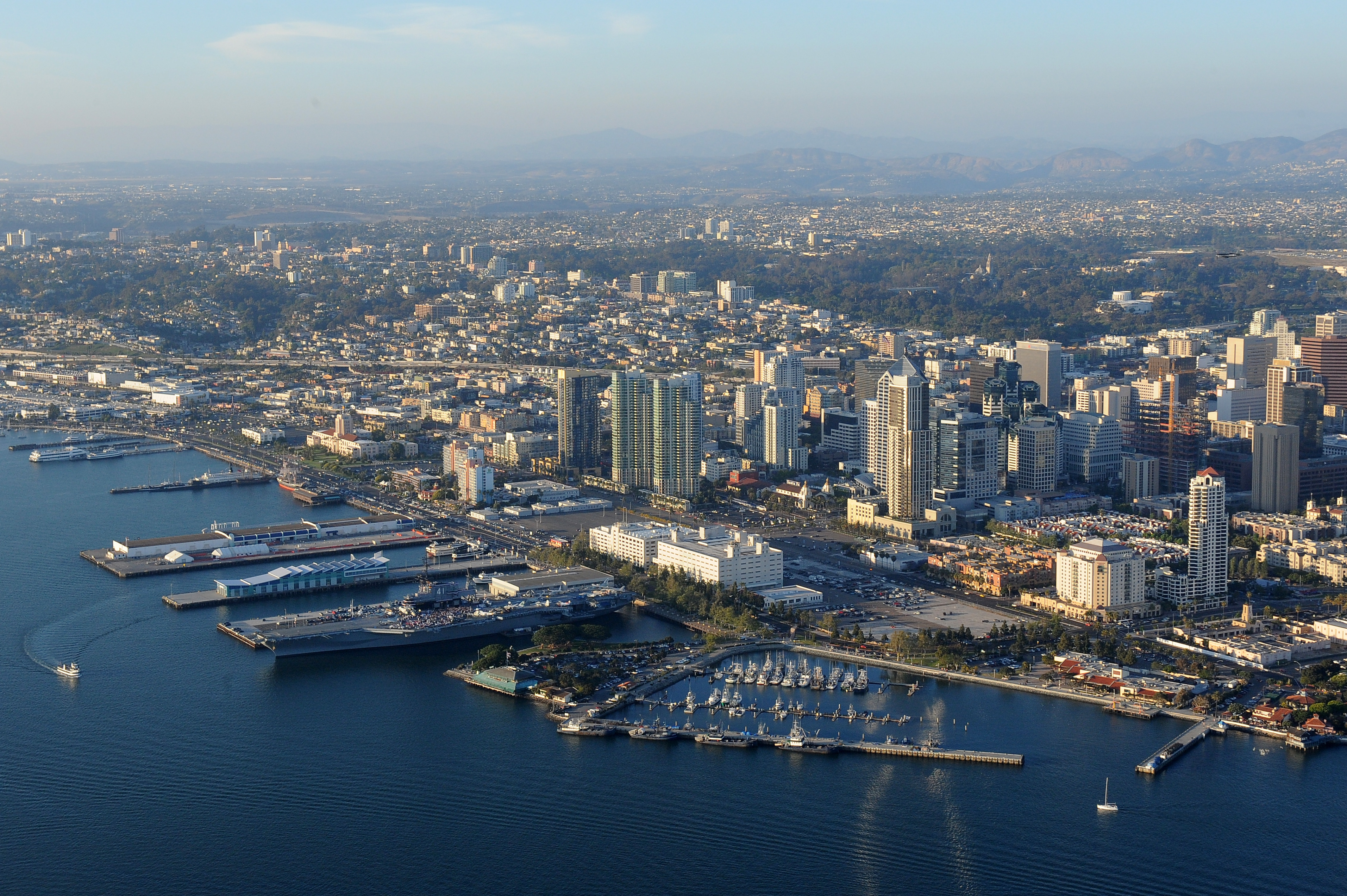 SAN DIEGO (June 4, 2011) Navy and Marine Corps personnel, along with community leaders from the greater San Diego area come together to commemorate the 69th Anniversary of the Battle of Midway aboard the USS Midway Museum. The Battle of Midway is considered one of the most important naval battles of World War II. (U.S. Navy photo by Mass Communication Specialist 2nd Class Roland A. Franklin/Released)